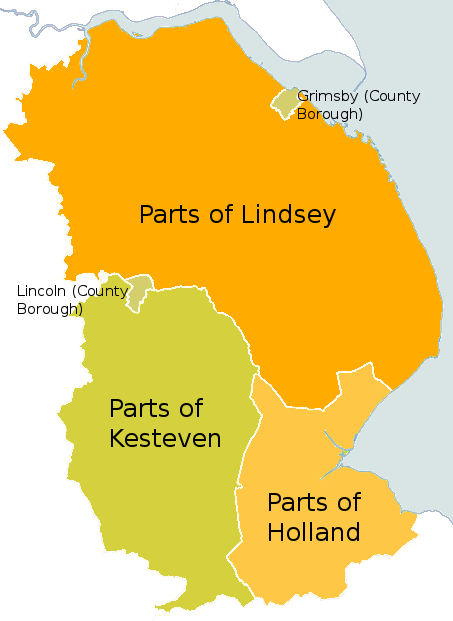 Map of Lincolnshire showing County Council and County Borough areas 1890-1965